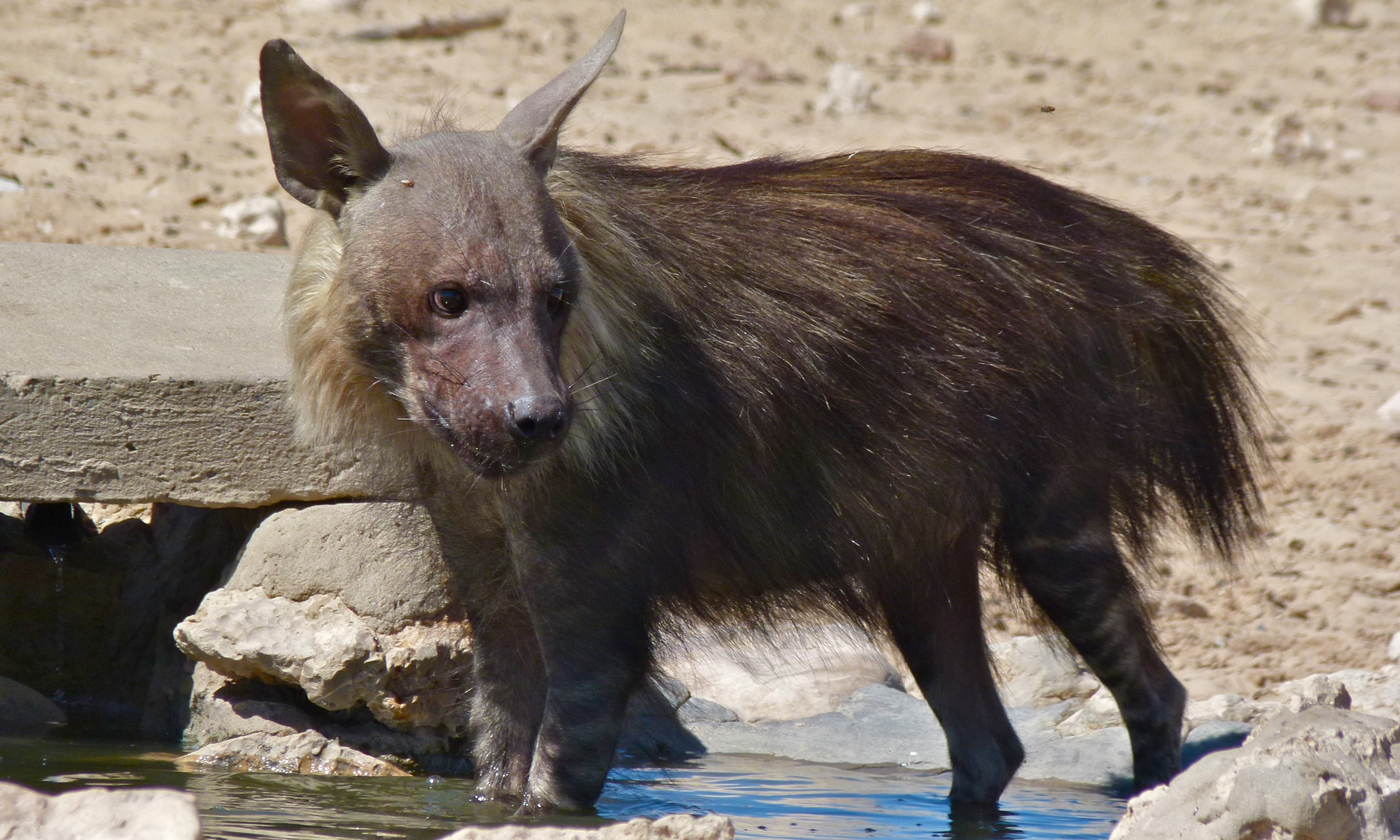 Union's End Waterhole, Kgalagadi Transfrontier Park, SOUTH AFRICA